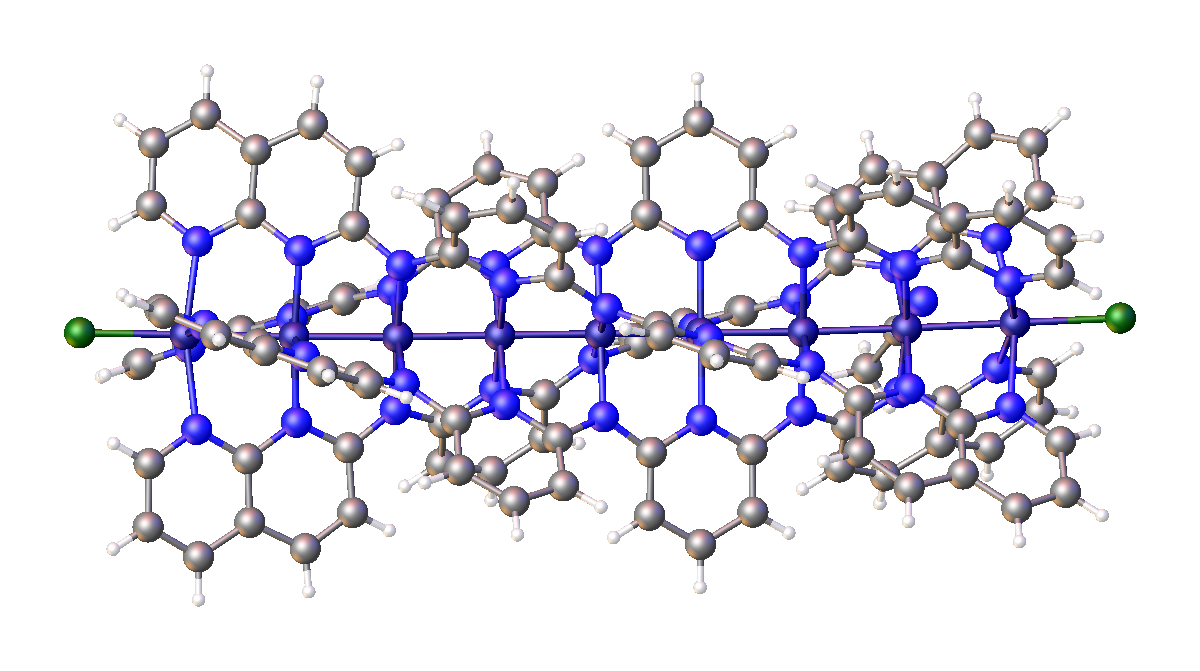 Ni9 emac structure from doi 10.1039/b923125k